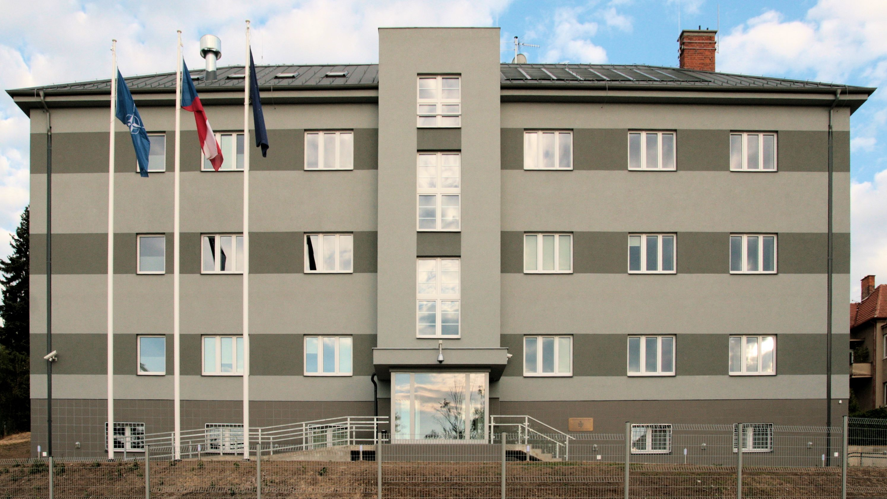 National Cyber Security Centre in Brno.